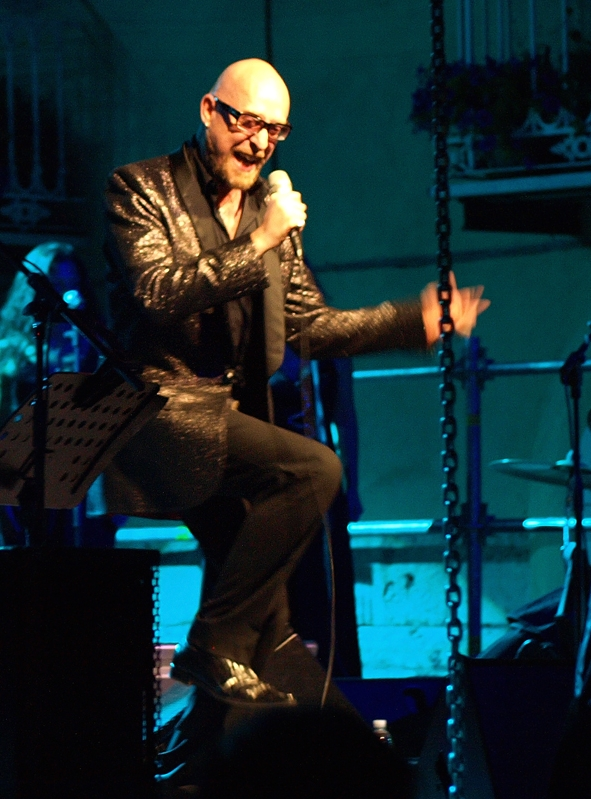 Atina Jazz 2008 - Mario Biondi